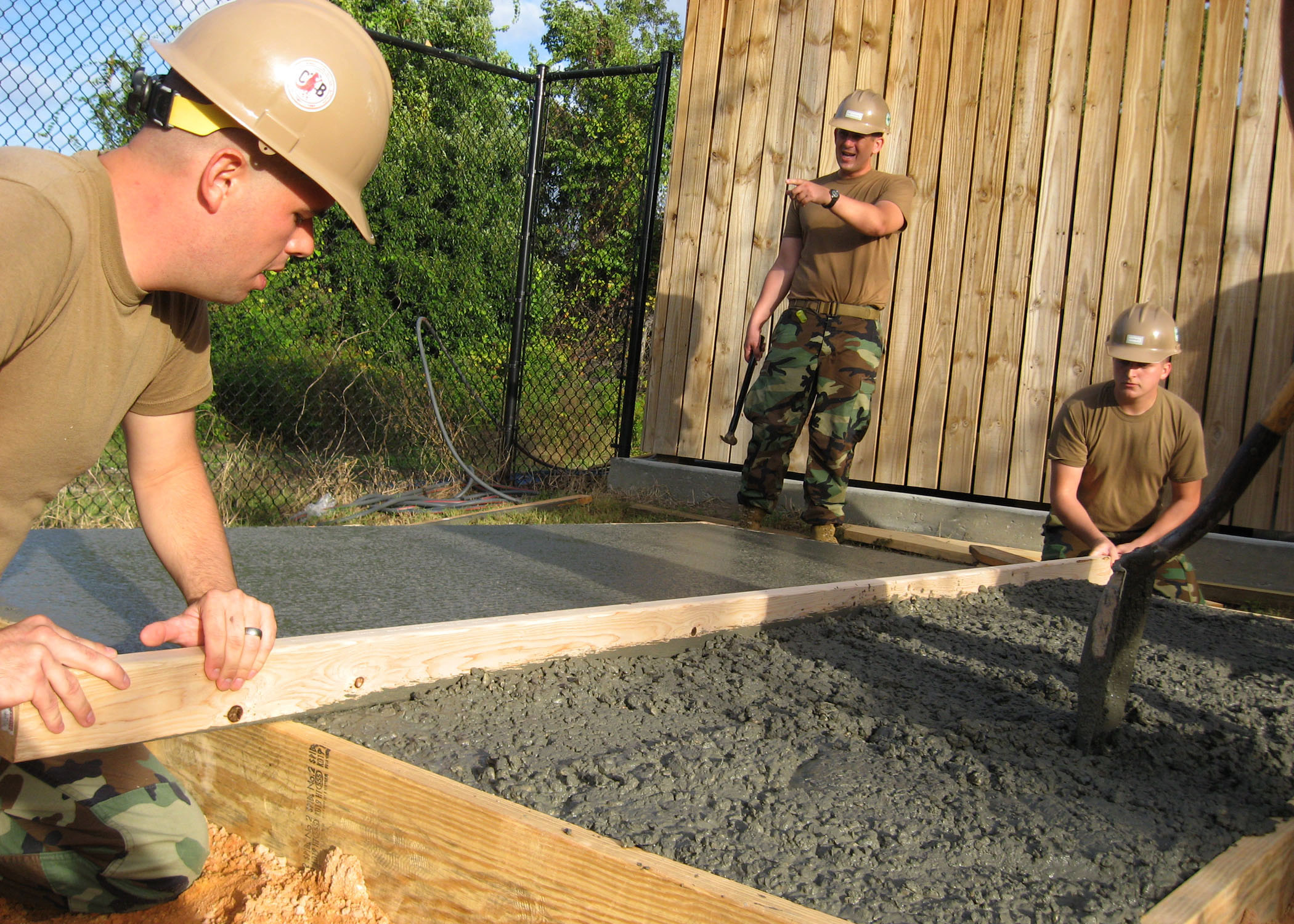 GULFPORT, Miss. (Oct. 22, 2009) Seabees assigned to Naval Mobile Construction Battalion (NMCB) 133 use a long board to screed wet concrete during the construction of a tool shed at the Feed My Sheep soup kitchen in Gulfport. (U.S. Navy photo by Religious Program Specialist 2nd Class Kirk Cogswell/Released)